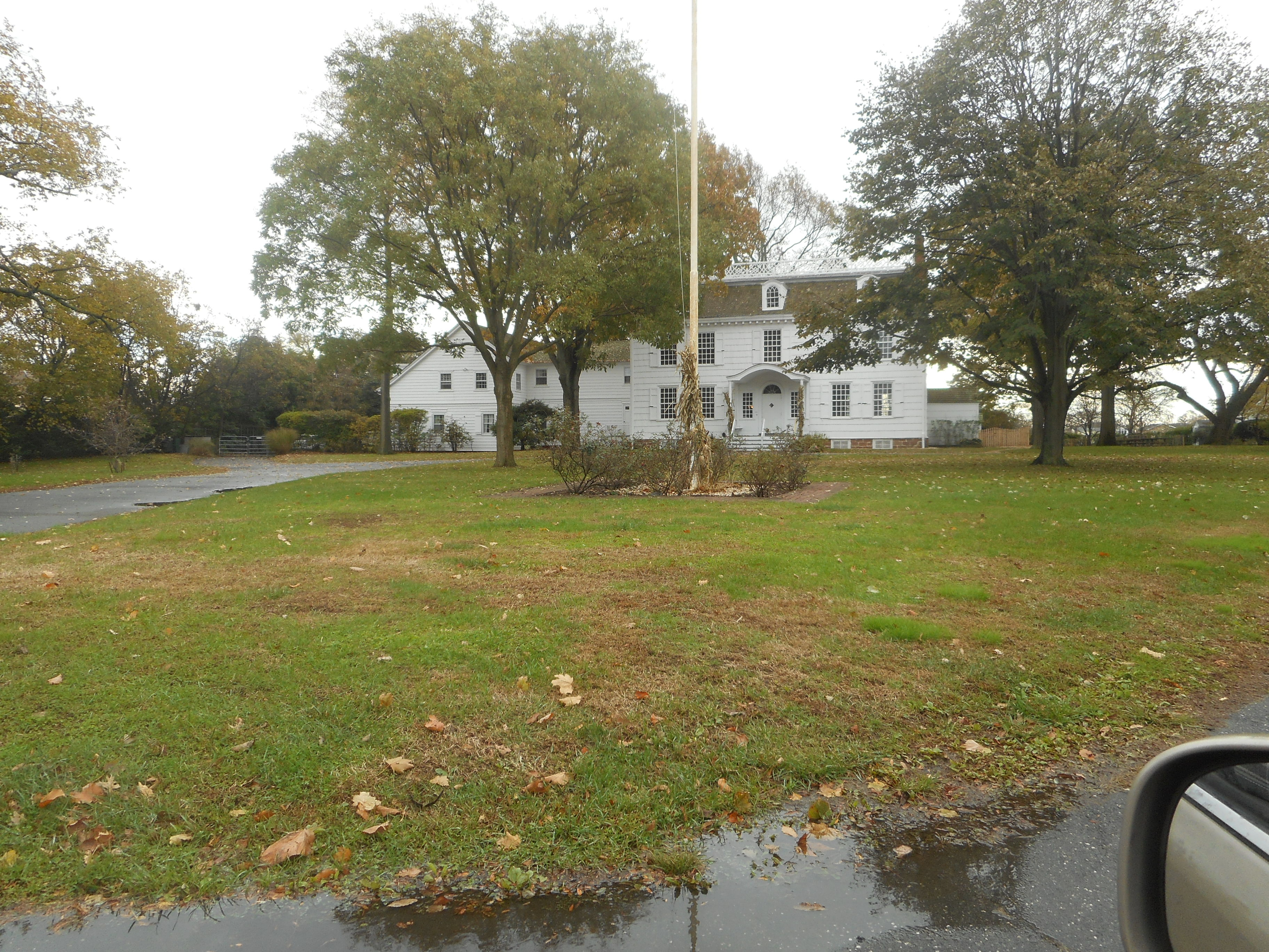 Contemporary photographs of the NRHP-listed Rock Hall in Lawrence, New York. The house was built on the northeast coast of Jamaica Bay around 1767, and was once the home of English sugar plantation owner Josiah Martin. During the American Revolution, it was briefly occupied by Minutemen in the winter of 1776. Prior to this photograph and six others, all pictures of the house museum were in black and white from the Historic American Building Survey and were taken in 1935; Either photographs from February 14, 1935, or diagrams from June 22, 1935. This was taken from my car on November 16, 2017.